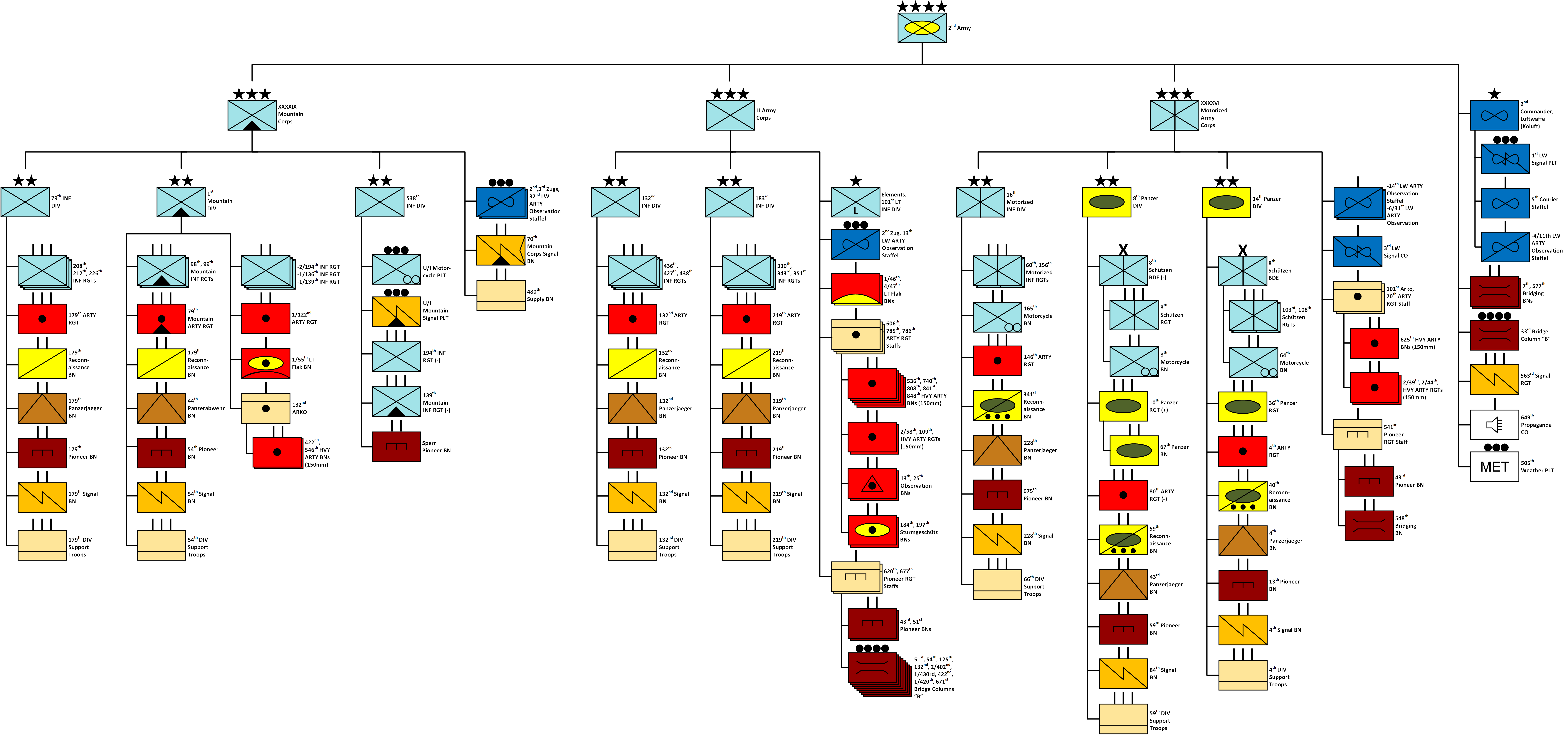 Organization of the German 2nd Army at the beginning of the Invasion of the Balkans on 1 April 1941 during World War 2